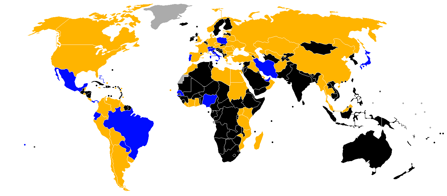 The result of worldwide qualification tournaments for the FIFA Beach Soccer World Cup 2017